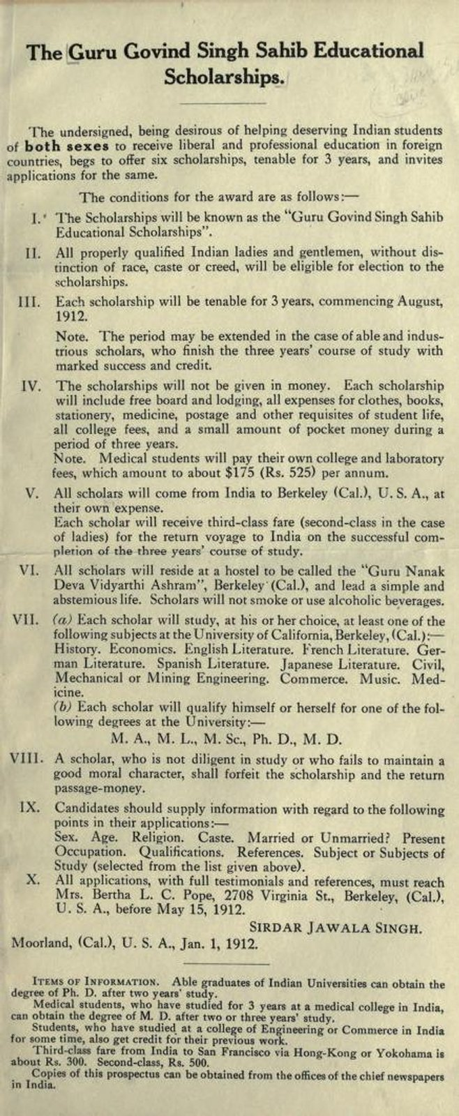 The brochure of the Guru Govind Singh Sahib educational scholarship, set up by Har Dayal, with funding from Jwala Singh. The scholarship was for Indian students wishing to study at University of California, Berkeley.